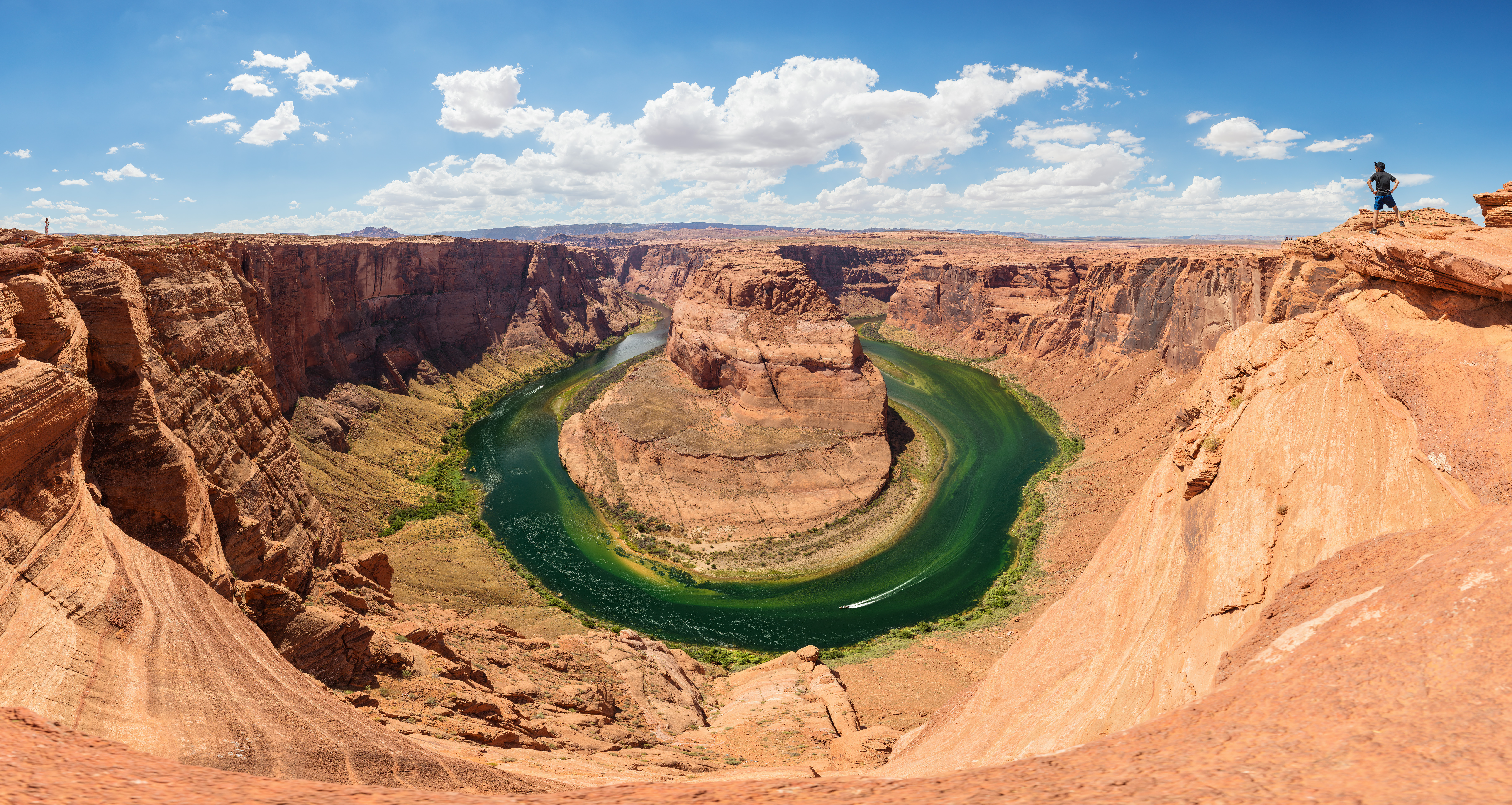 Horseshoe Bend of the Colorado River in Arizona, USA